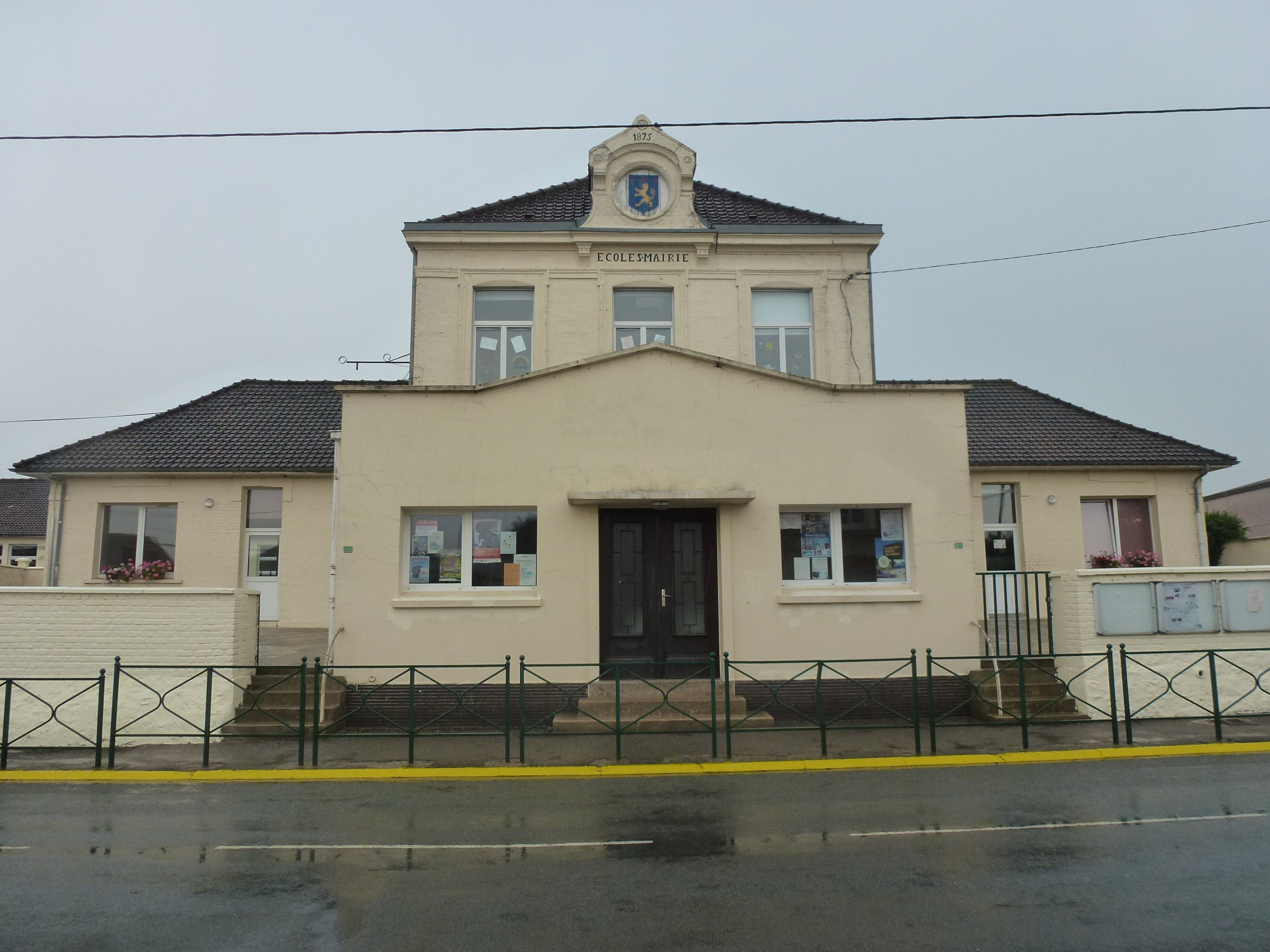 Andres (Pas-de-Calais) écoles, ancienne mairie